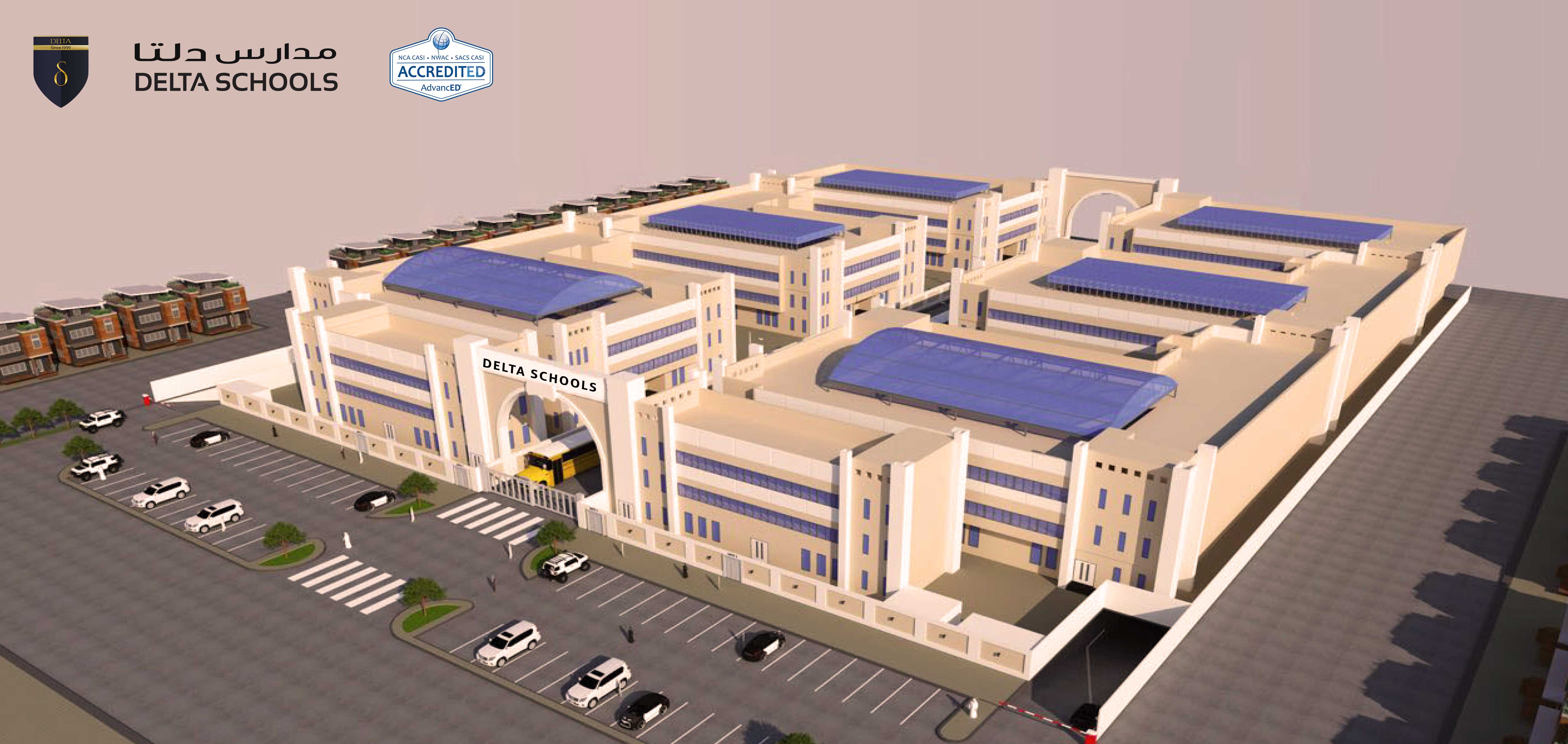 Delta Schools